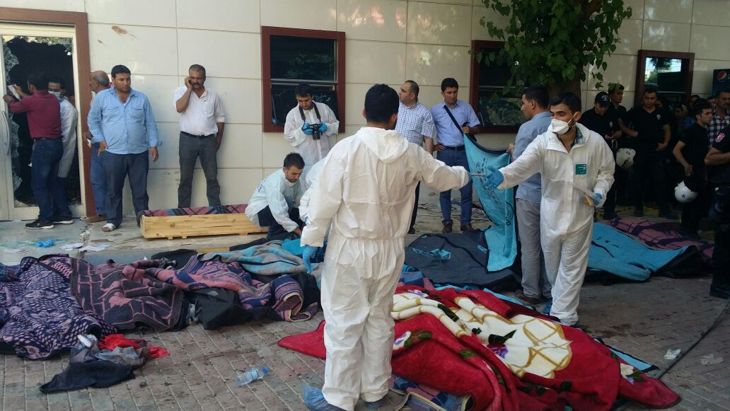 After the Suruç bombing forensic science experts in scene of crime, Suruç, Şanlıurfa, Turkey.